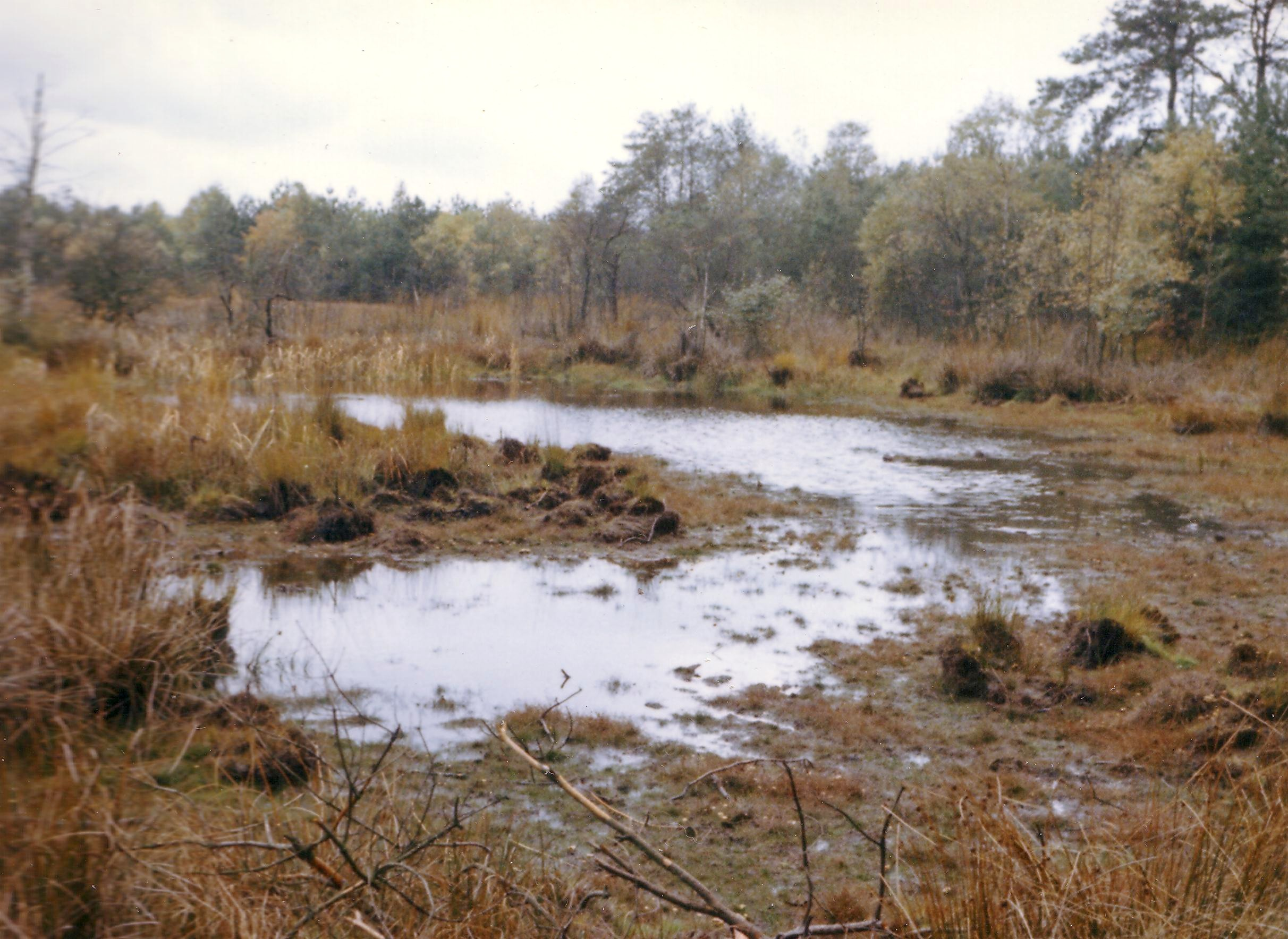 Bog near Nettetal (West Germany)